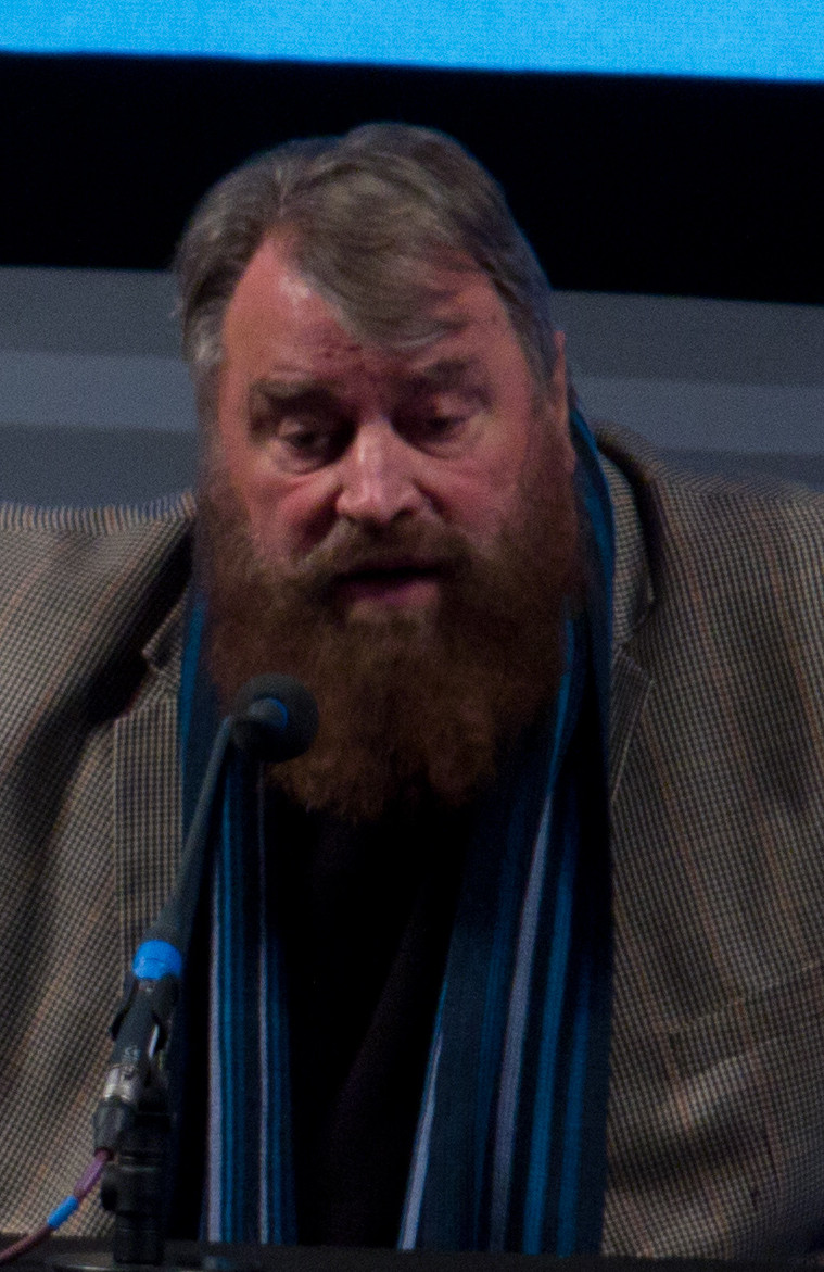 Brian Blessed at the SFX Weekender 3 in 2012 Other information Released under Creative Commons Attribution-ShareAlike 2.0 Generic (CC BY-SA 2.0) license